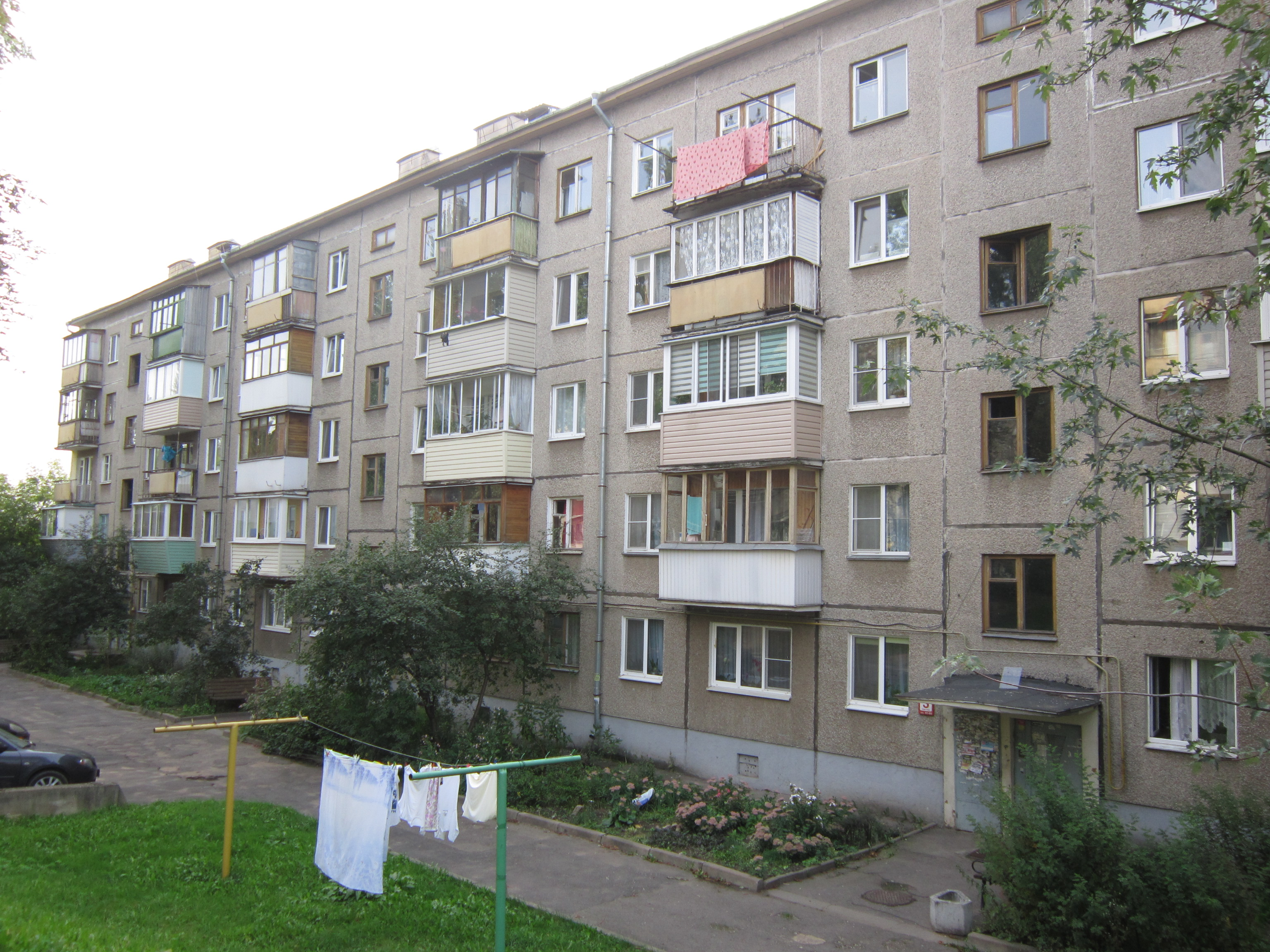 "Khrushchev house" in Minsk, Belarus (Klumava Street 27 or 25)